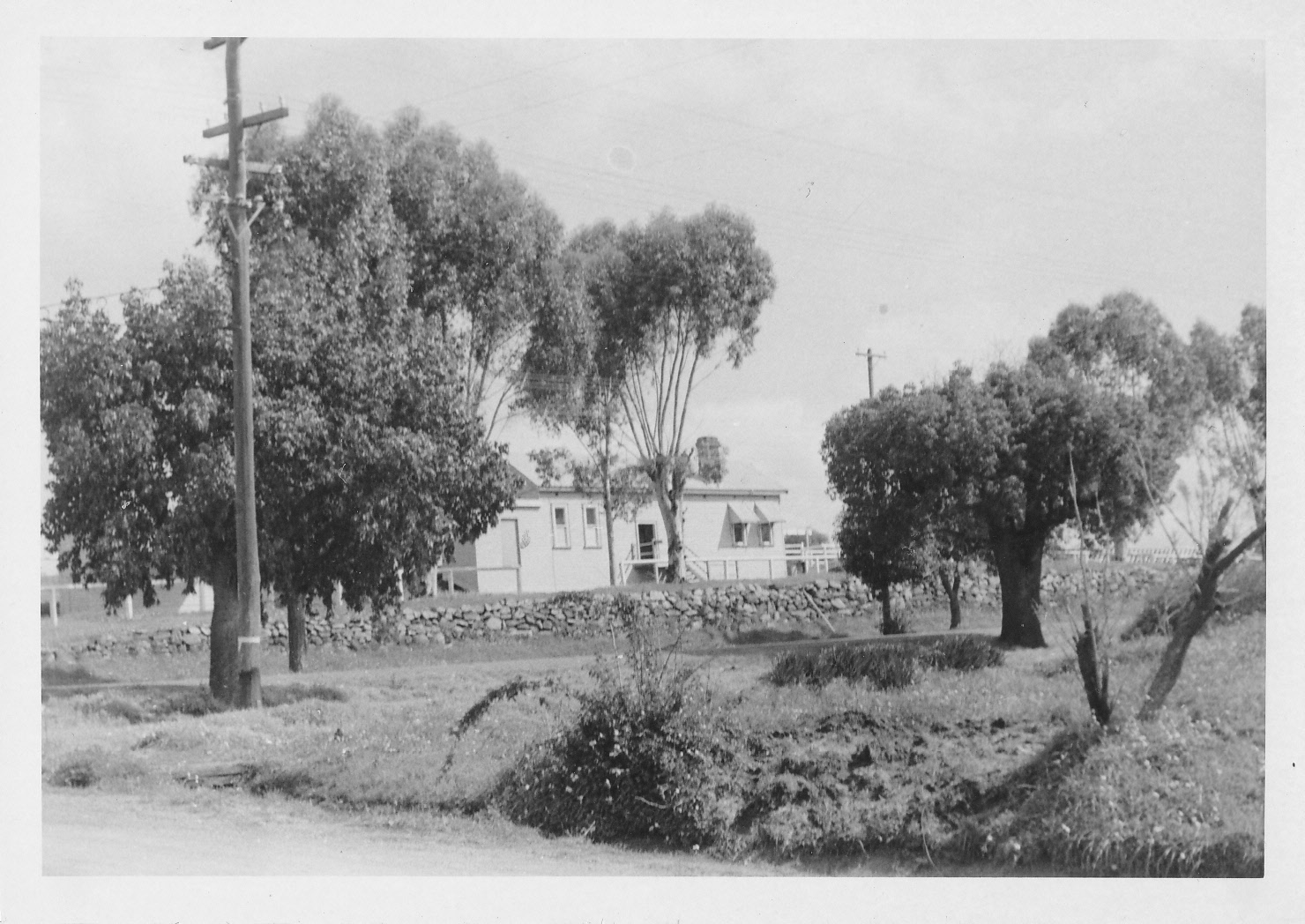 Old Toodyay Railway Station c1955 taken from Stirling Terrace by Leo Ayling.